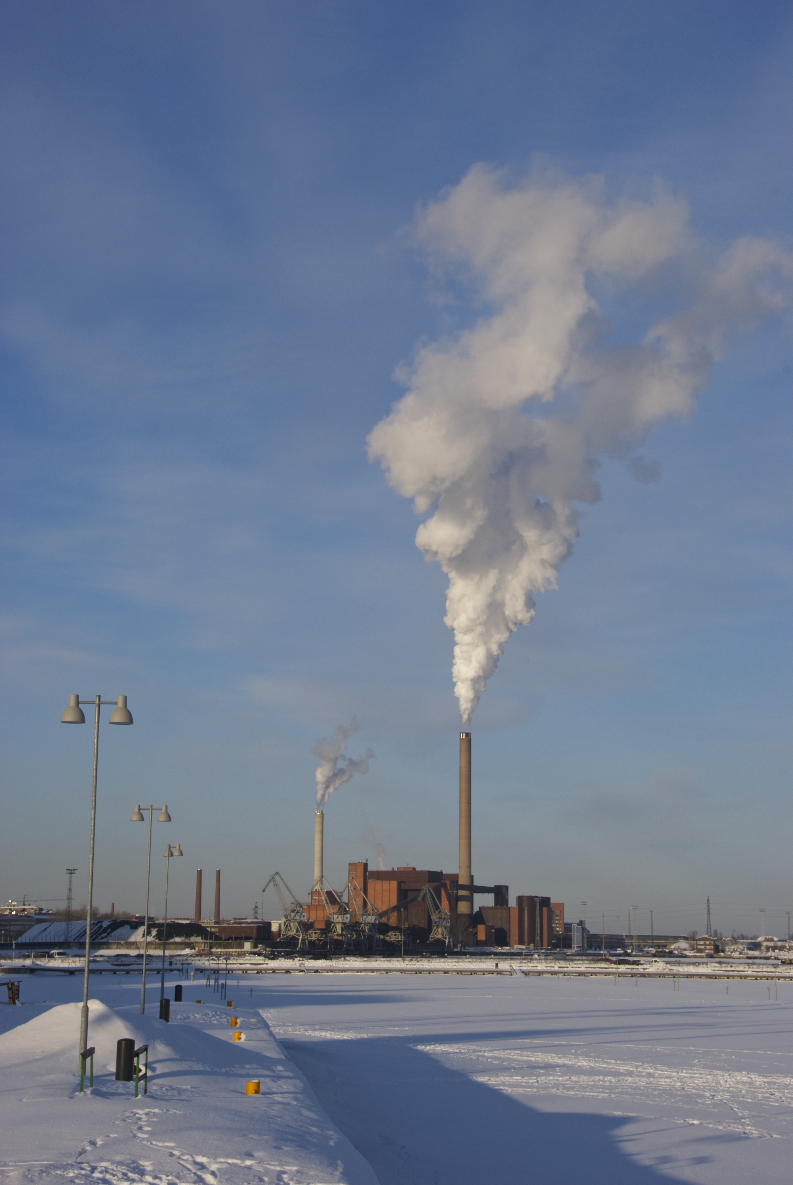 Hanasaari power plant in winter